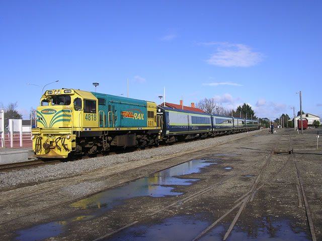 Wairarapa Connection at Carterton, DCP4818 and SW set Photographed by Palmeriain